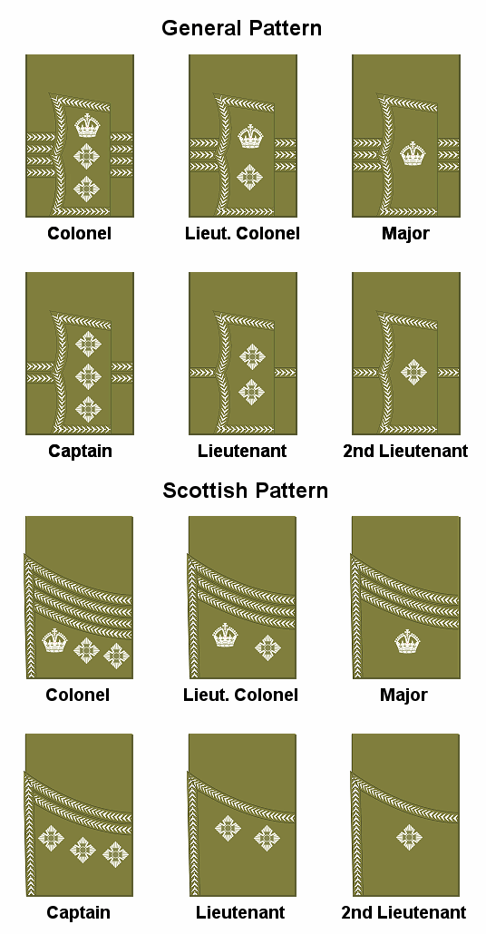 British Army officers' rank as worn on the sleeves in the World War I period.